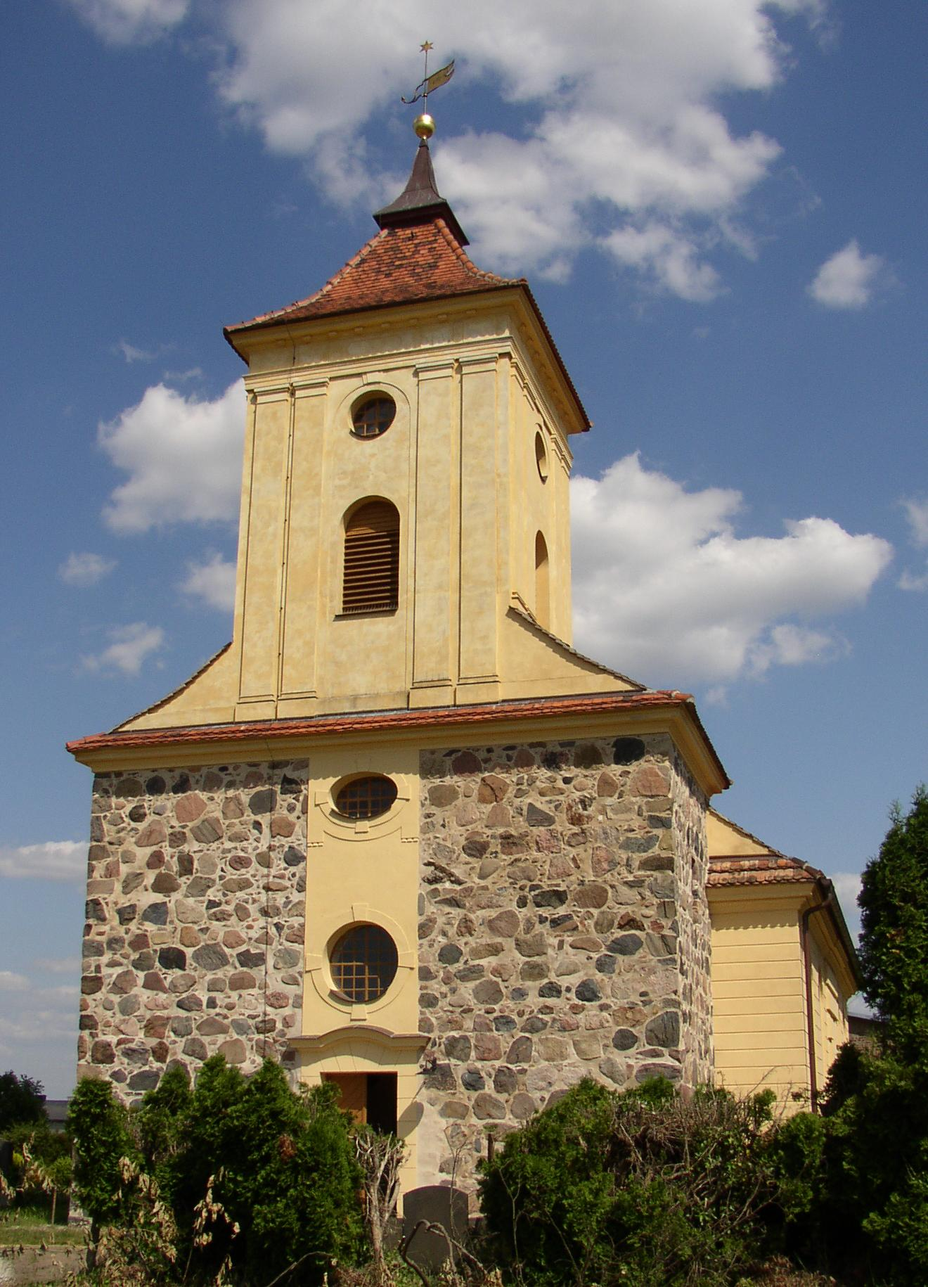 Church in Kloster Lehnin-Damsdorf in Brandenburg, Germany